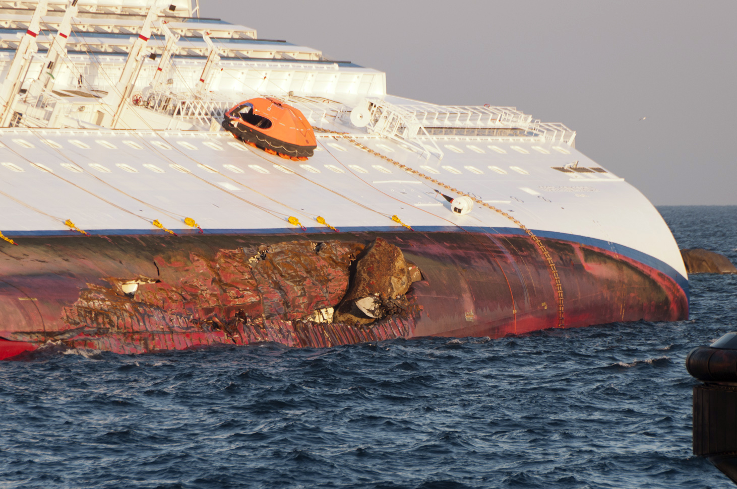 Collision of Costa Concordia